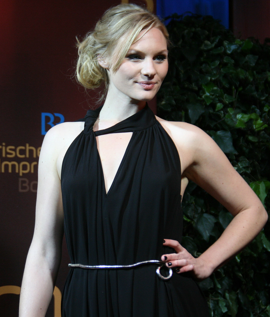 Rosalie Thomass, Bavarian Film Awards 2012 at the Prinzregententheater in Munich.